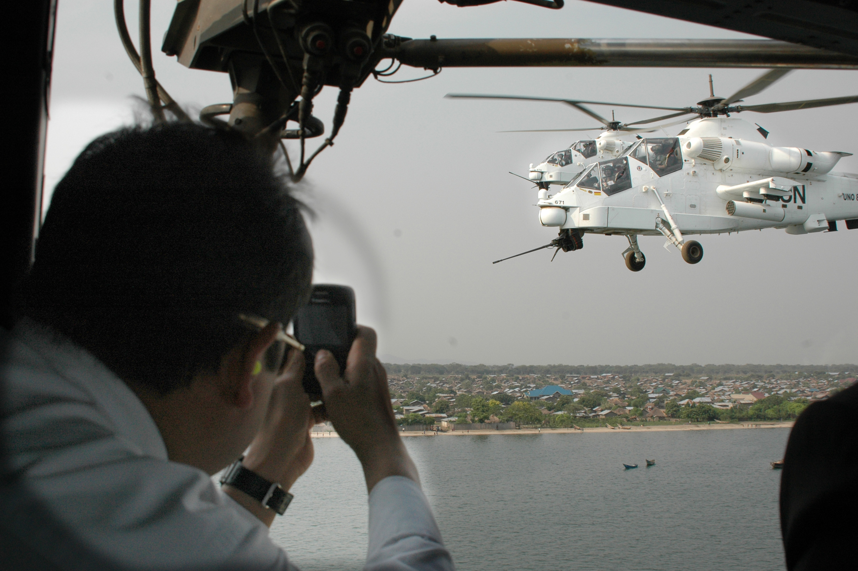 Two Rooivalk attack helicopters flown by South African pilots are escorting a UN delegation on its way from Beni to Kiwanja in the North Kivu province, eastern D. R. Congo. The head of MONUSCO Office in Goma, Ray Torres, who was part of the delegation, is seen taking a photo of the South African aircraft with his mobile phone.